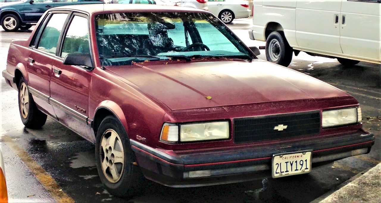 Chevrolet Celebrity Eurosport Sedan